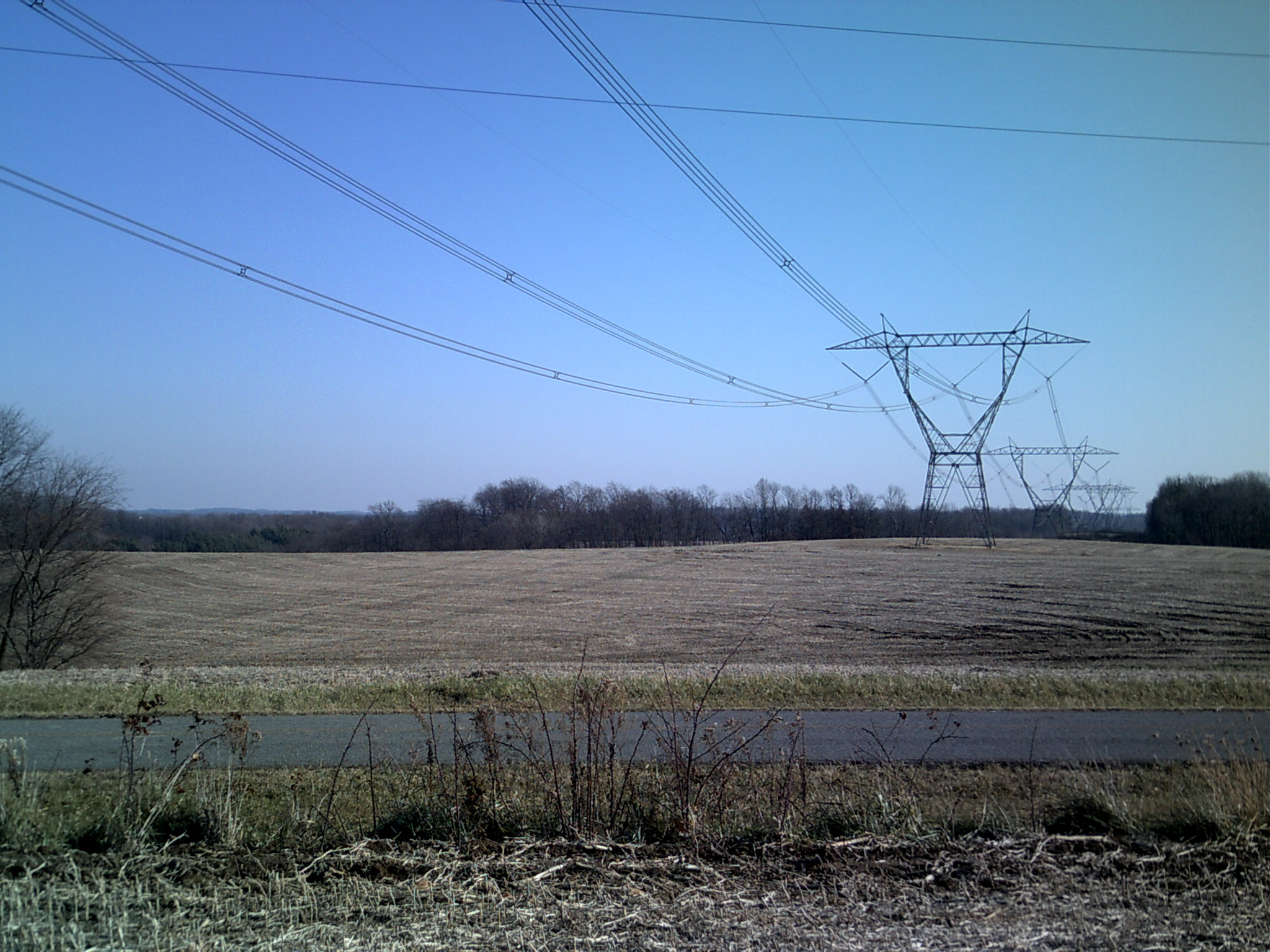 Rose Township from Clay Road, Carroll County, Ohio